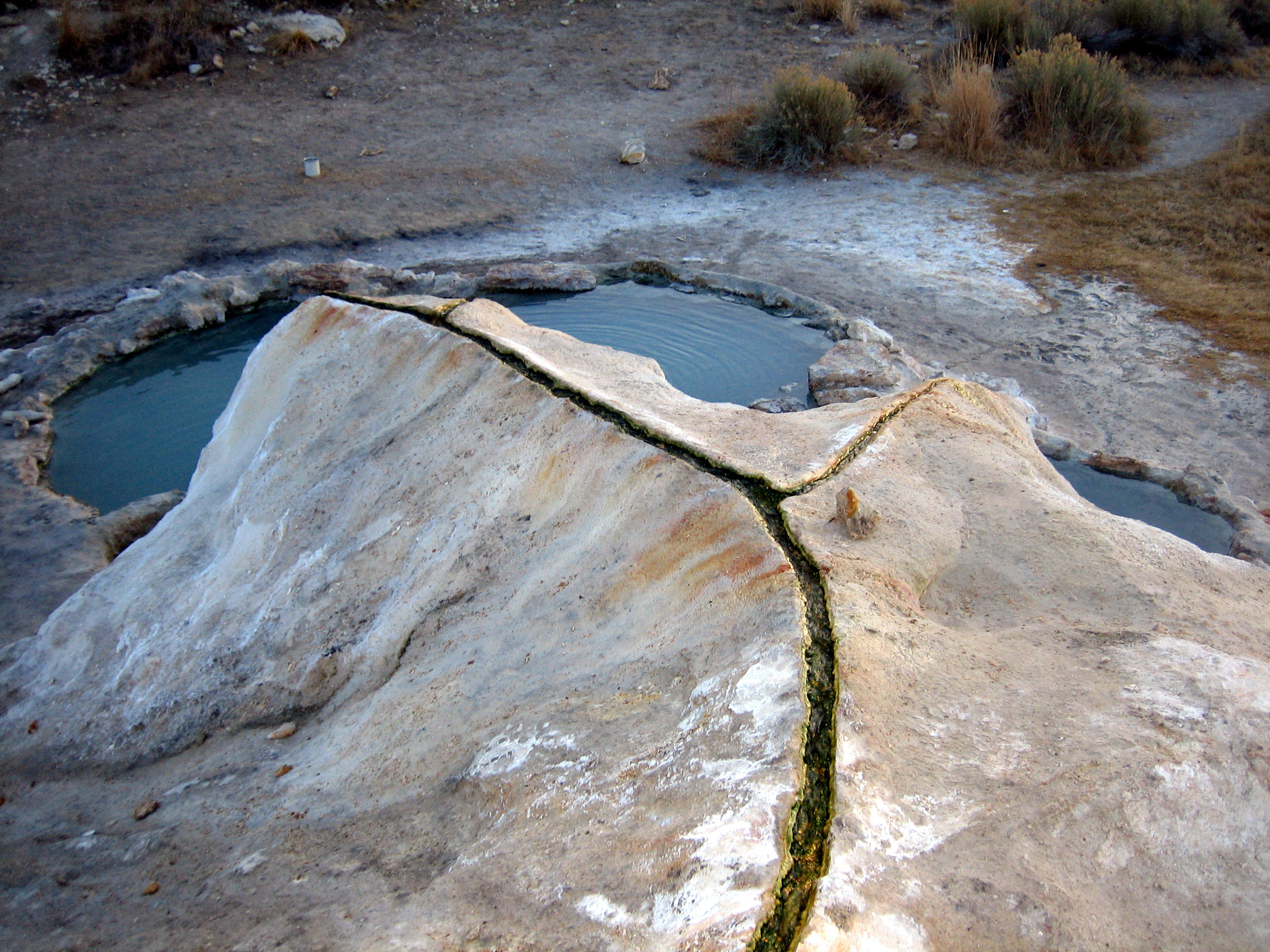 Calcium carbonate chemically precipitated out as Travertine from the waters of Hot Springs of Bridgeport California. Precipitation occurs, when environmental conditions of the water change (temperature, pressure, etc. Ex.: emerging from underground) and cause the water to release (part of) its Carbon dioxide as gas. Waterquantity and sediments in this case were large. Biotic material may increase the precipitation by photosynthesis (in this case negligible).